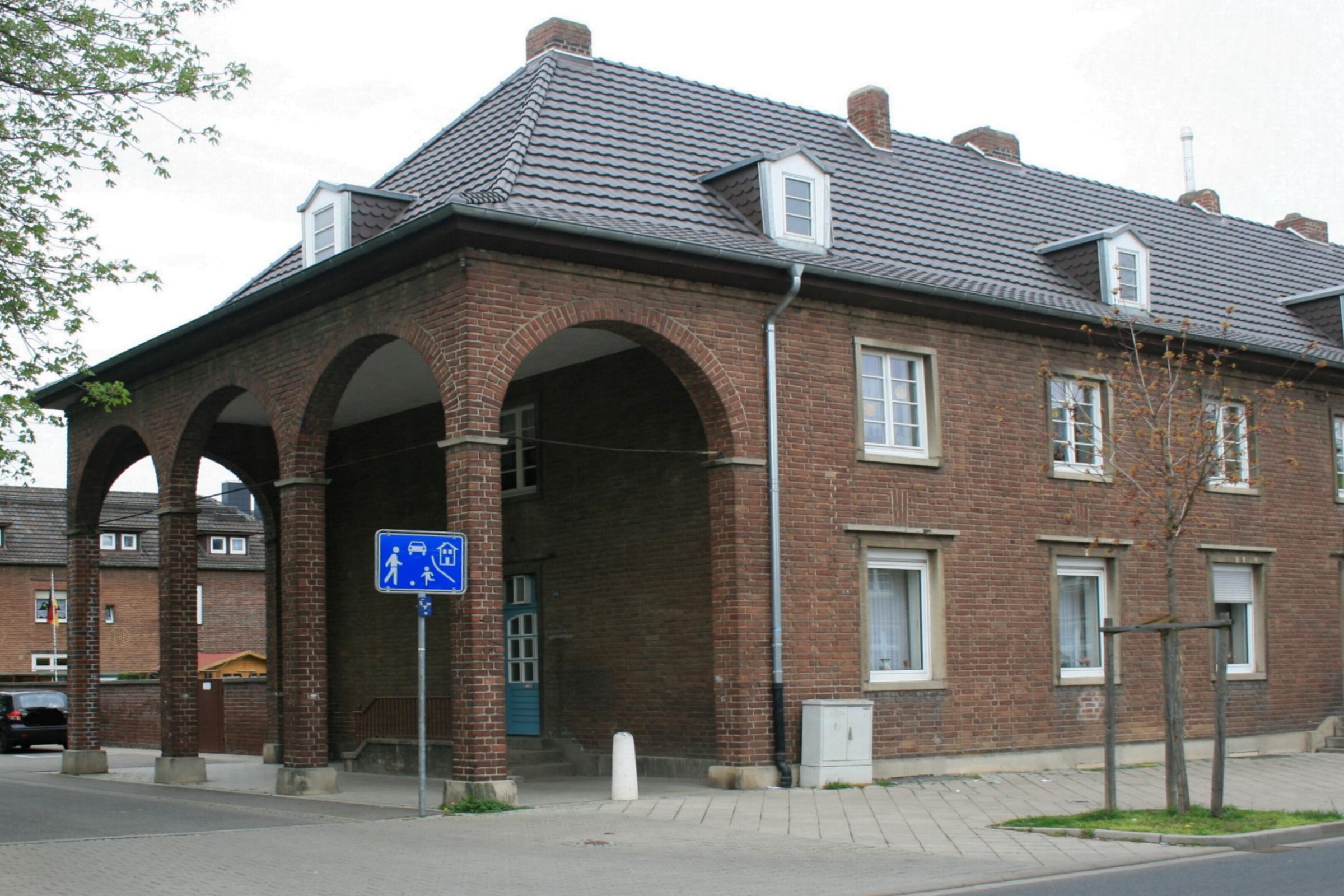 Cultural heritage monument No. 1/078 in Düren